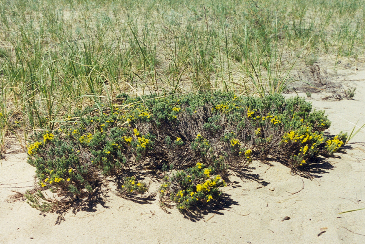 Hudsonia tomentosa (beach heath), Pancake Bay Provincial Park, Ontario, Canada